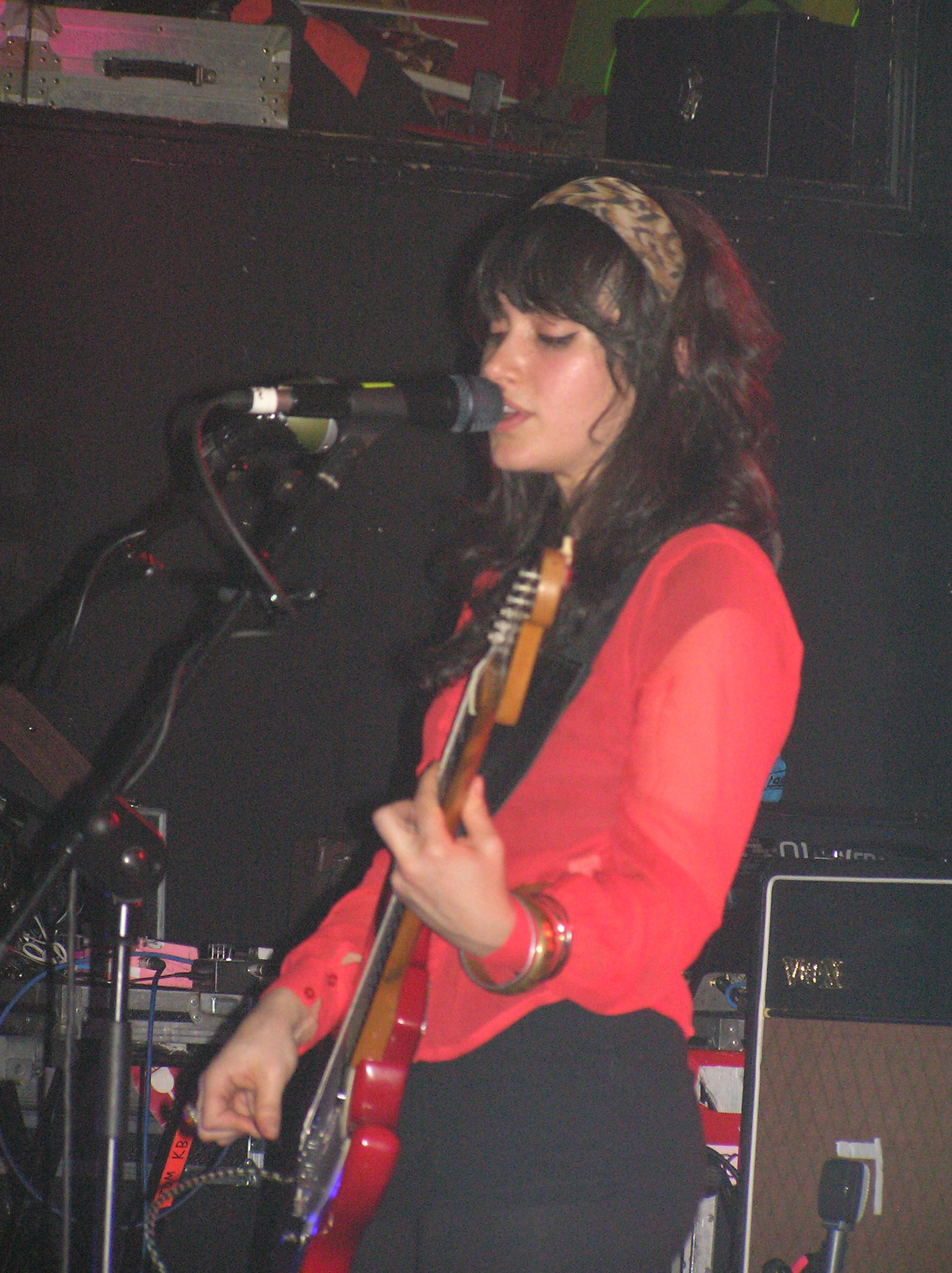 Howling Bells performing at the Wedgewood Rooms, Portsmouth UK on 5th June 2006